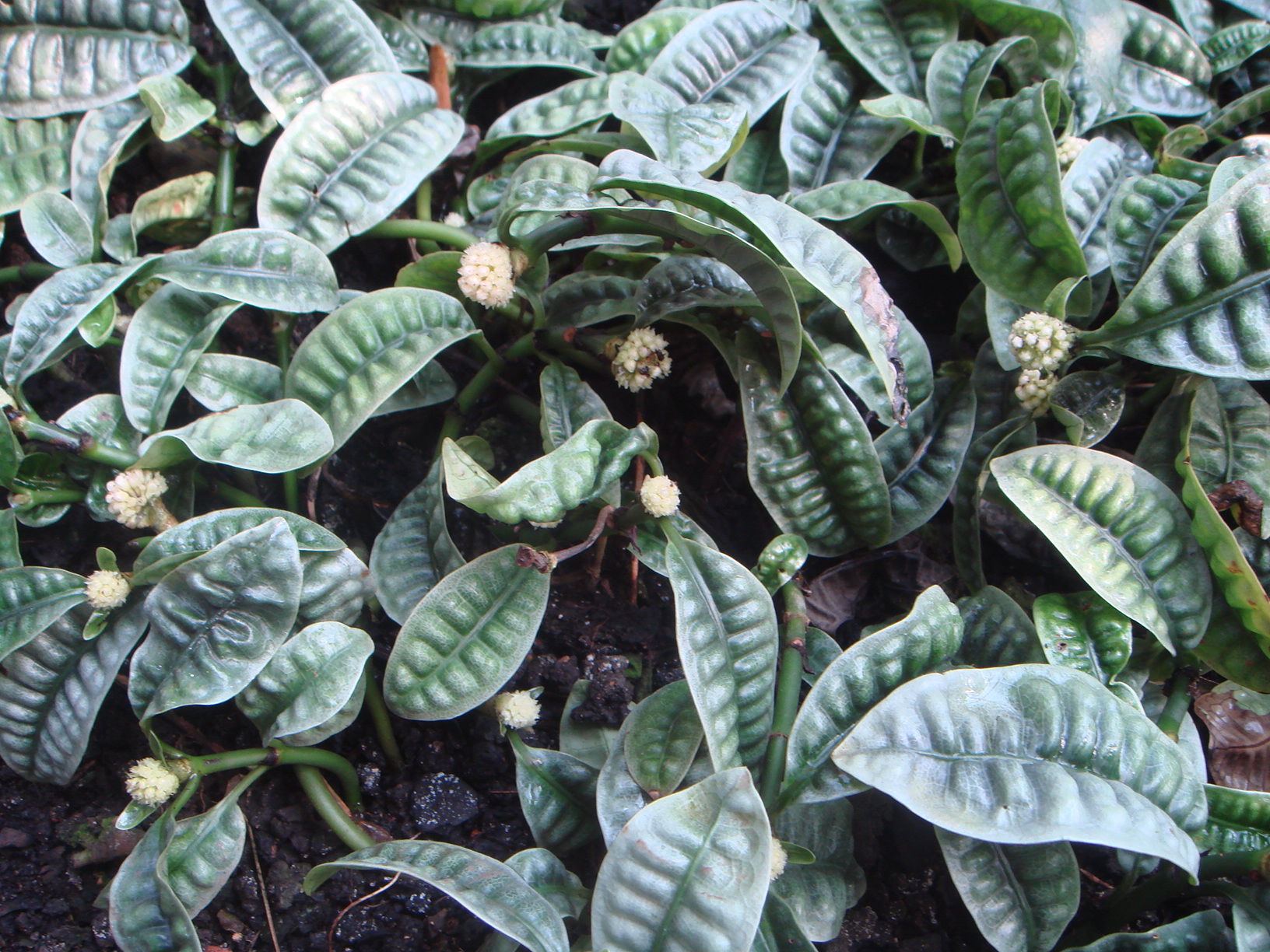 (Psychotria ankasensis) at Kew Gardens, London UK.